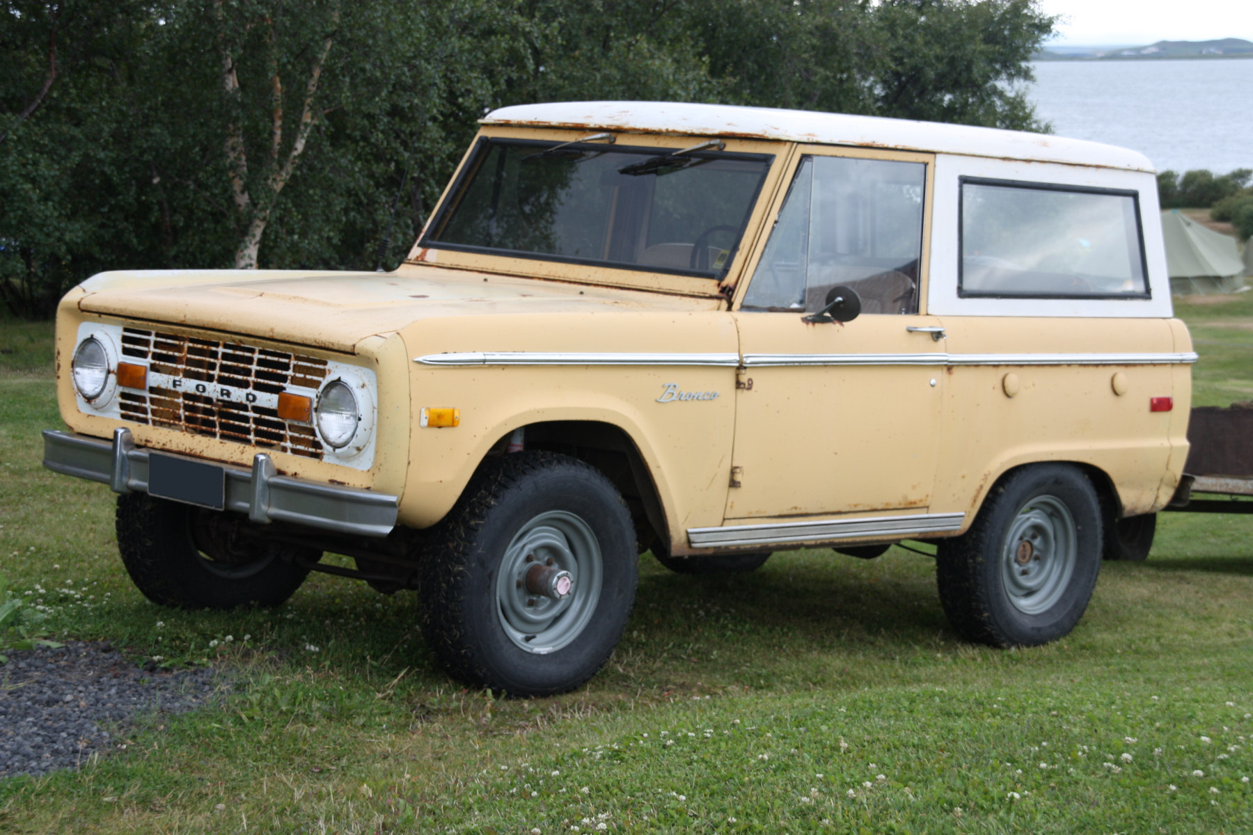 Ford Bronco (first generation) in Reykjahlid, Iceland.